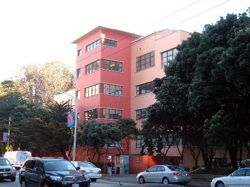 The Langley Porter Psychiatric Institute — at 401 Parnassus Avenue on the Parnassus Campus of the University of California, San Francisco.